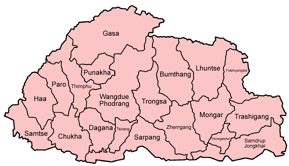 Map of the districts of Bhutan in English. Made by User:Golbez.